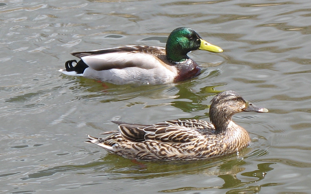 Couple of mallards (Anas platyrhynchos) at the Tablas de Daimiel National Park, Ciudad Real, Spain.